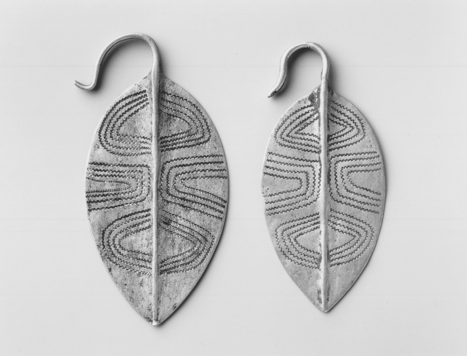 Earring (Akaparaparat)